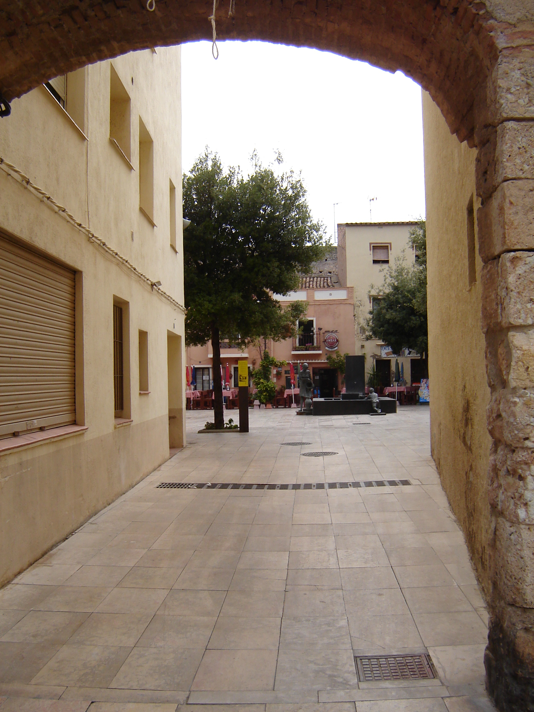 Plaza del Pou in the centre of Hospitalet de l'Infant. Hospitalet de l'Infant, municipality of Vandellòs i l'Hospitalet de l'Infant, comarca Baix Camp, province of Tarragona, Spain.